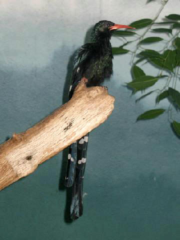 Description: Green Woodhoopoe - Source: own work - Location: Bronx Zoo, New York - Author: self, User:Stavenn